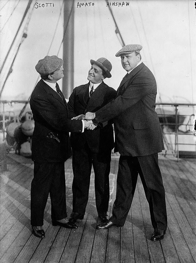 Bain News Service,, publisher. Antonio Scotti, Pasquale Amato, and William Hinshaw aboard the SS George Washington on October 29, 1912. "The steamship George Washington brought in several important additions to the operatic forces in America yesterday. Its passenger list included the names of Titta Ruffo, the $2,000 baritone, and Lucrezia Bori, the Spanish soprano. Besides Ruffo there were three other baritones on board -- Antonio Scotti, Pasquale Amato, and William Hinshaw." [1912] 1 negative : glass ; 5 x 7 in. or smaller. Notes: Title from unverified data provided by the Bain News Service on the negatives or caption cards. Photo probably shows three opera singers, baritones Antonio Scotti, Pasquale Amato, and William Hinshaw, who arrived in New York City aboard the steamship George Washington in 1912 to perform with the Metropolitan Opera Company. (Source: Flickr Commons project, 2008) Forms part of: George Grantham Bain Collection (Library of Congress). Format: Glass negatives. Repository: Library of Congress, Prints and Photographs Division, Washington, D.C. 20540 USA, General information about the Bain Collection is available at Persistent URL: Call Number: LC-B2- 2455-11